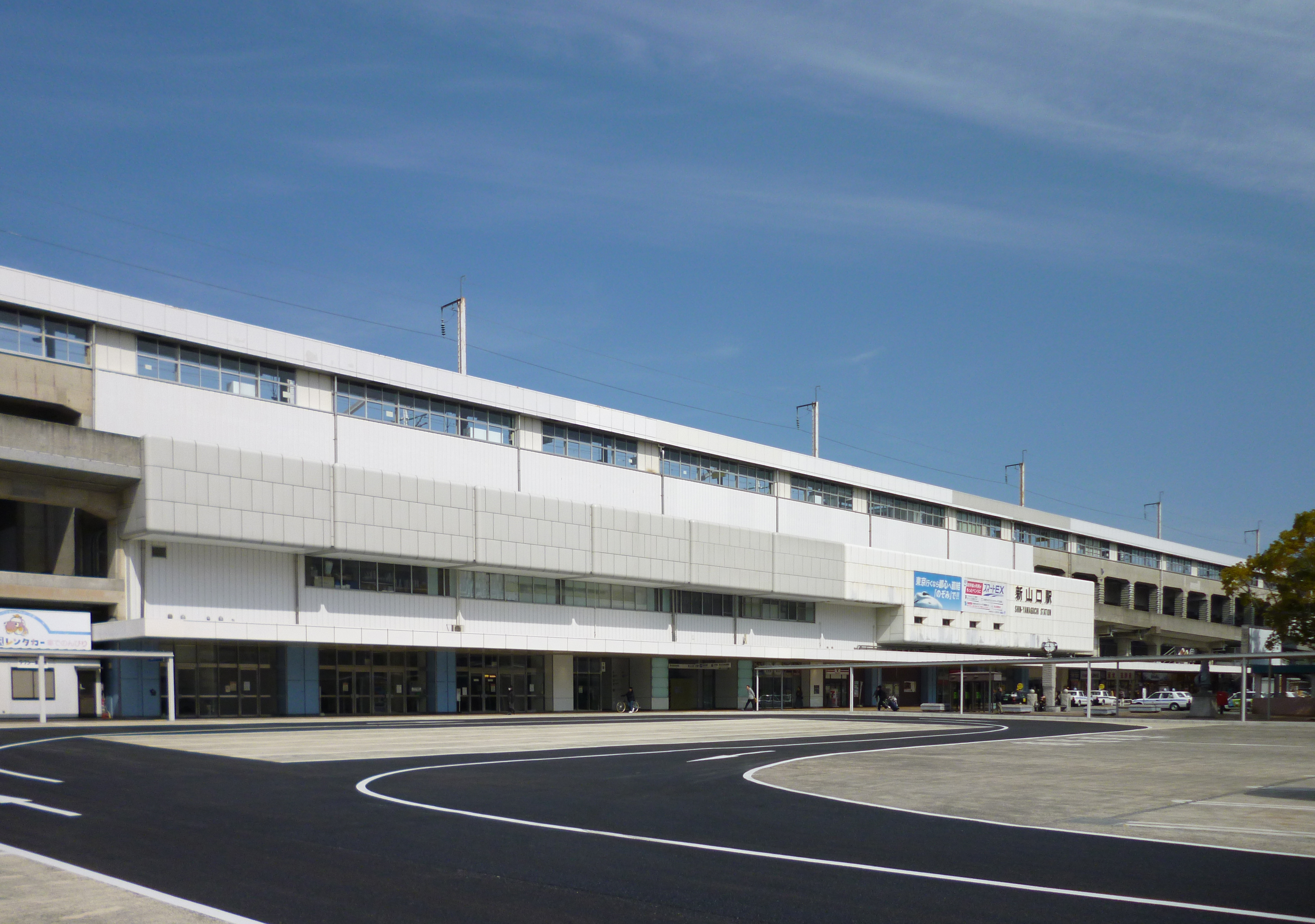 The south side of Shin-Yamaguchi Station in Yamaguchi, Yamaguchi Prefecture, Japan.